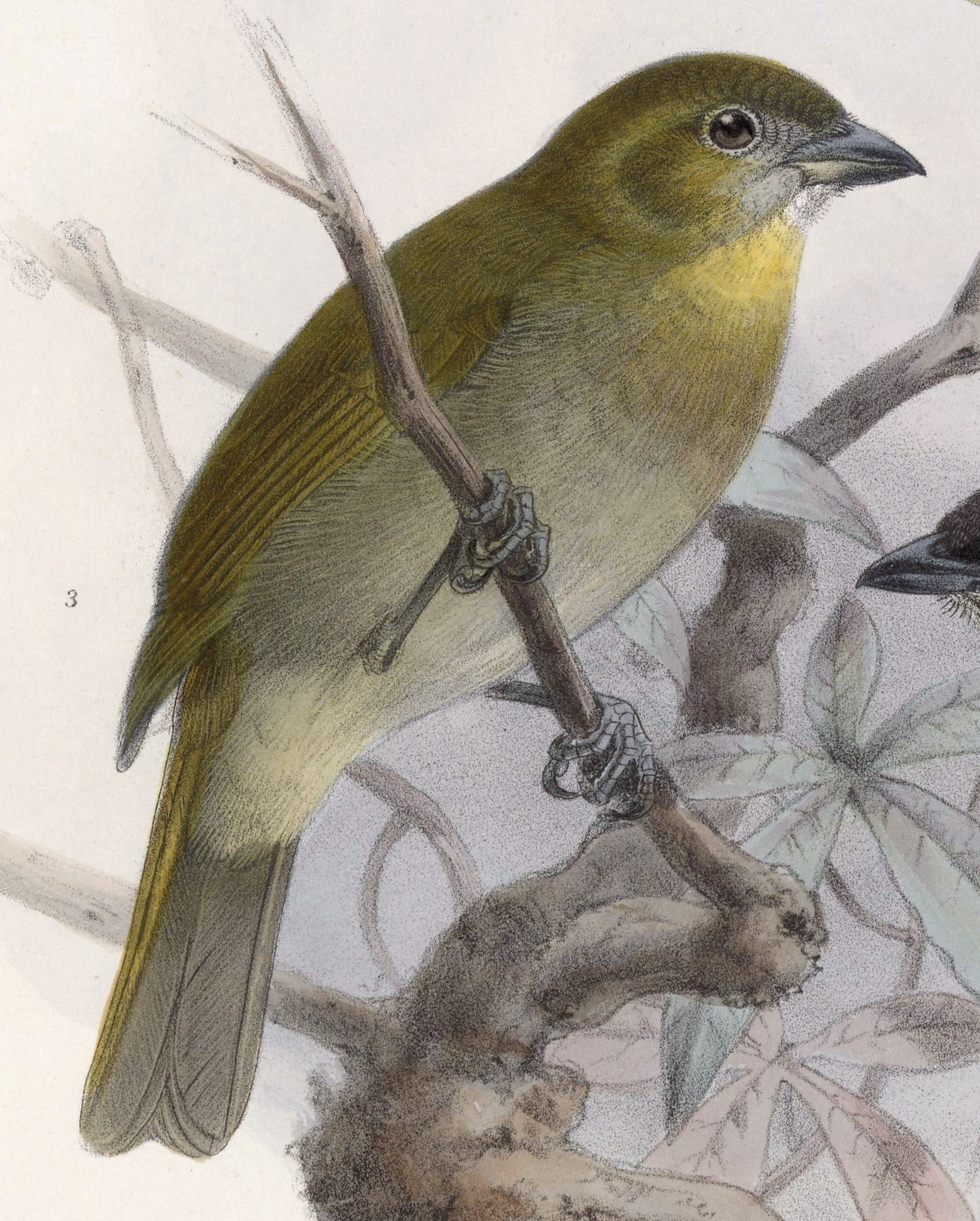 « Chlorospingus hypophaeus » = Chlorospingus flavigularis hypophaeus (Subspecies of Yellow-throated Bush-tanager)